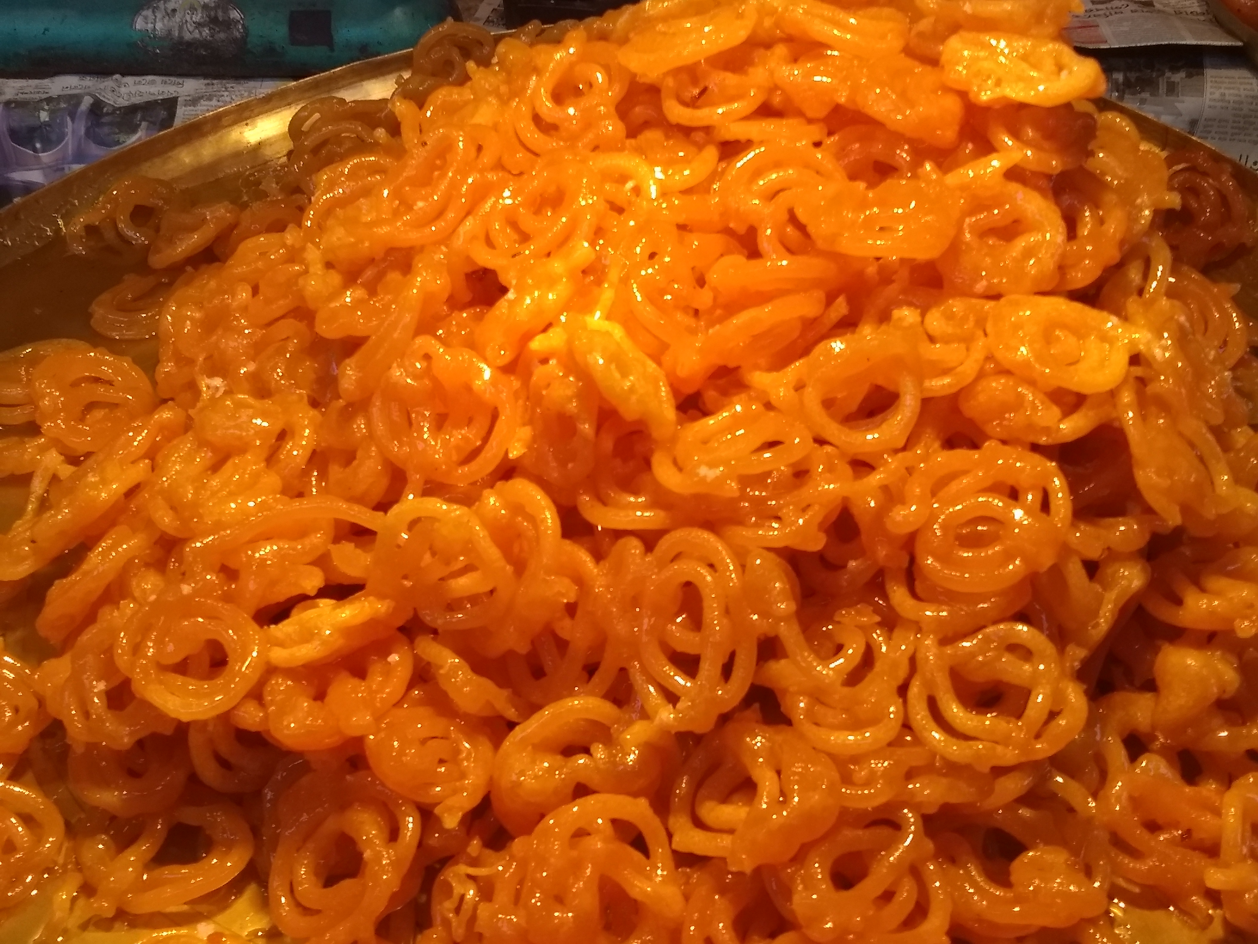 Jalebi, also known as zulbia, is a sweet popular food in countries of South Asia, West Asia, North Africa, and East Africa. It is made by deep-frying maida flour (plain flour or all-purpose flour) batter in pretzel or circular shapes, which are then soaked in sugar syrup. They are particularly popular in Iran and the Indian subcontinent.